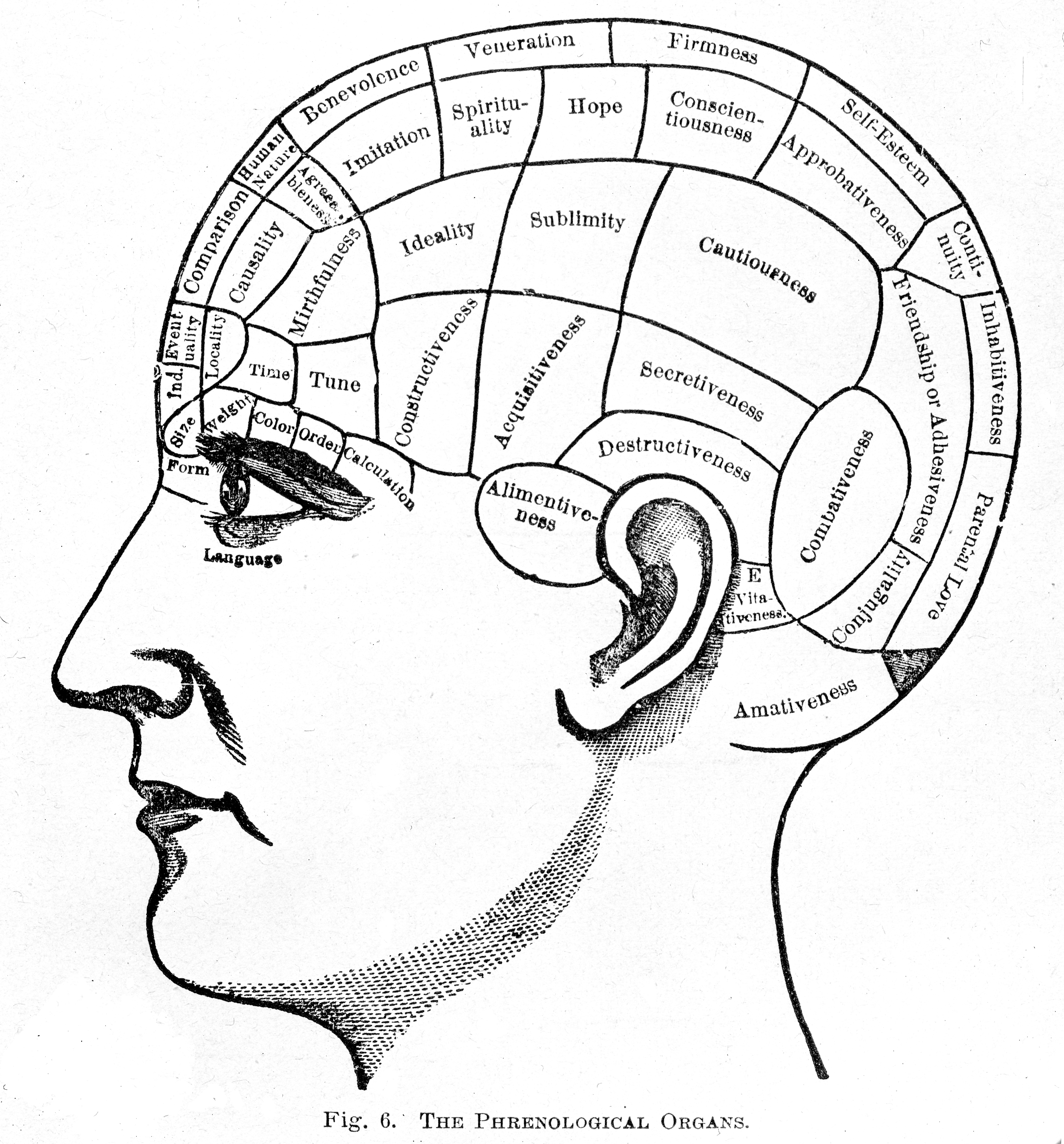 Phrenological organs, 1887 General Collections Keywords: Phrenology